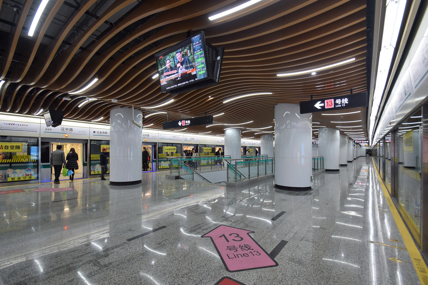 Line 12 Platform of Hanzhong Road Station, Shanghai Metro